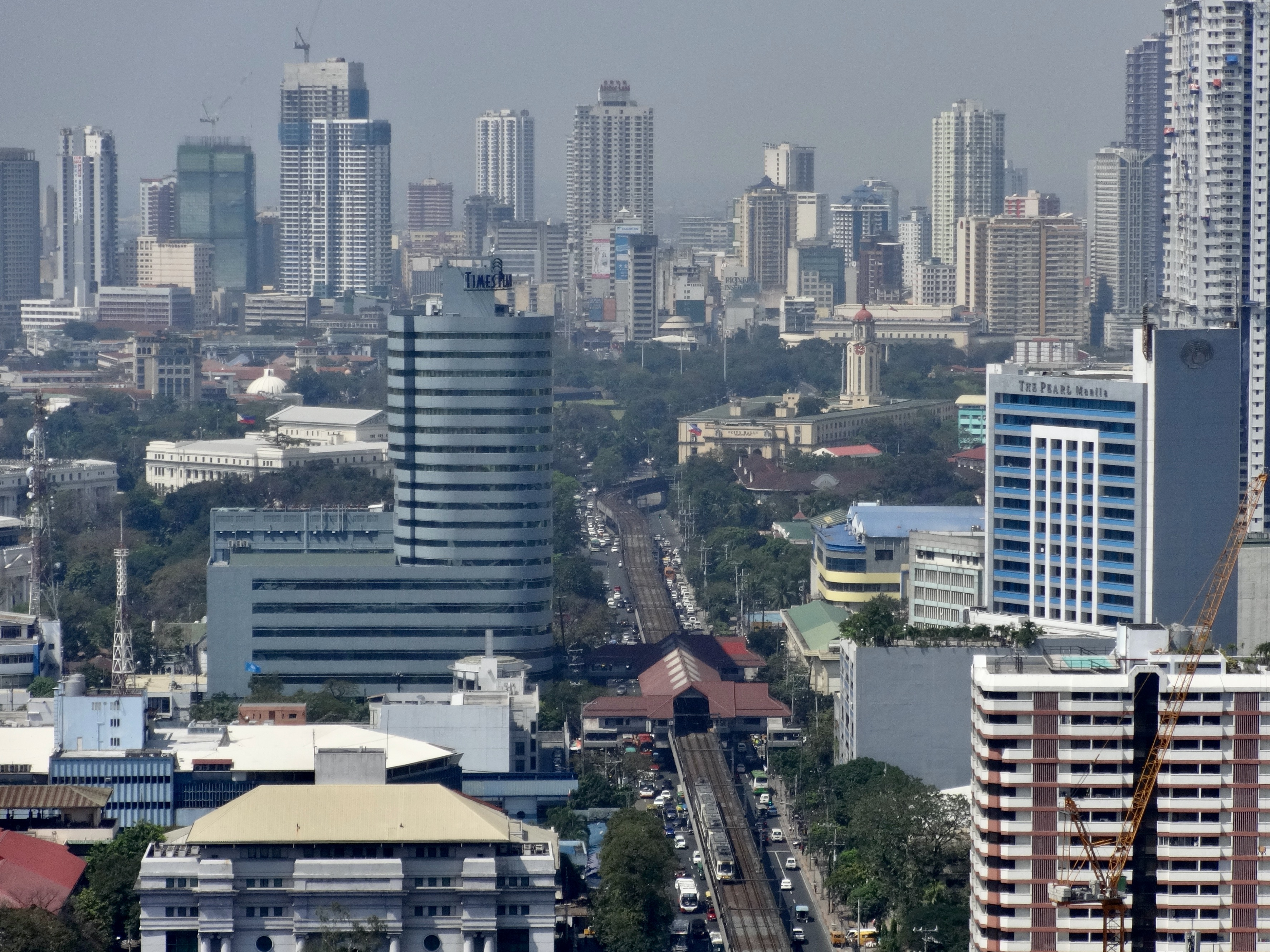 Aerial view of Taft Avenue (N170) (with UN Ave., City Hall and Binondo skyline) in Manila